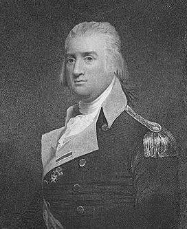 Portrait of Samuel Smith